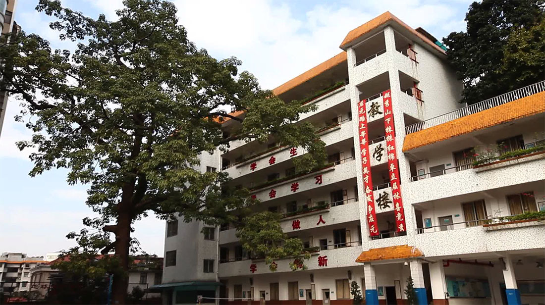 Image of Guangzhou No.2 High School Yingyuan Campus.